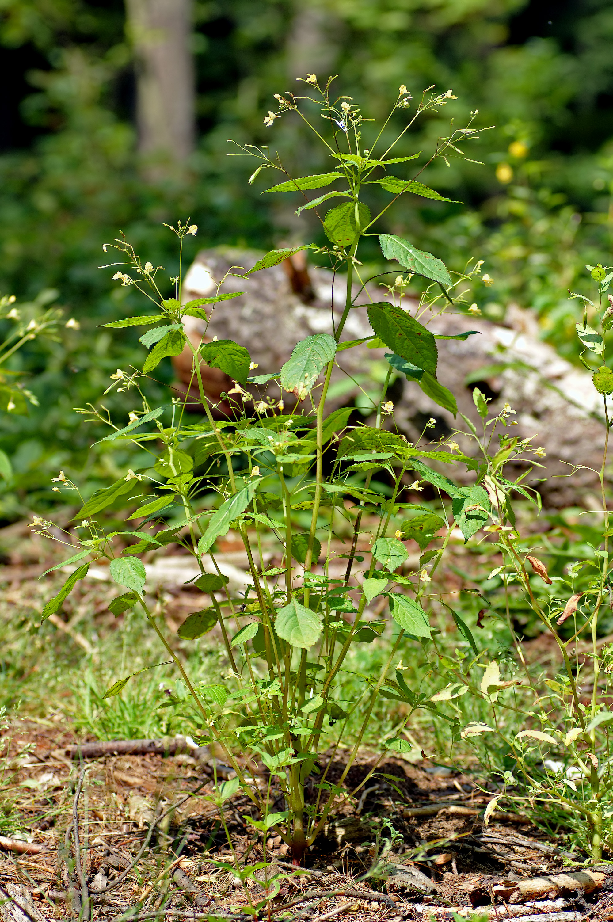 This image shows a Small balsam plant (Impatiens parviflora).